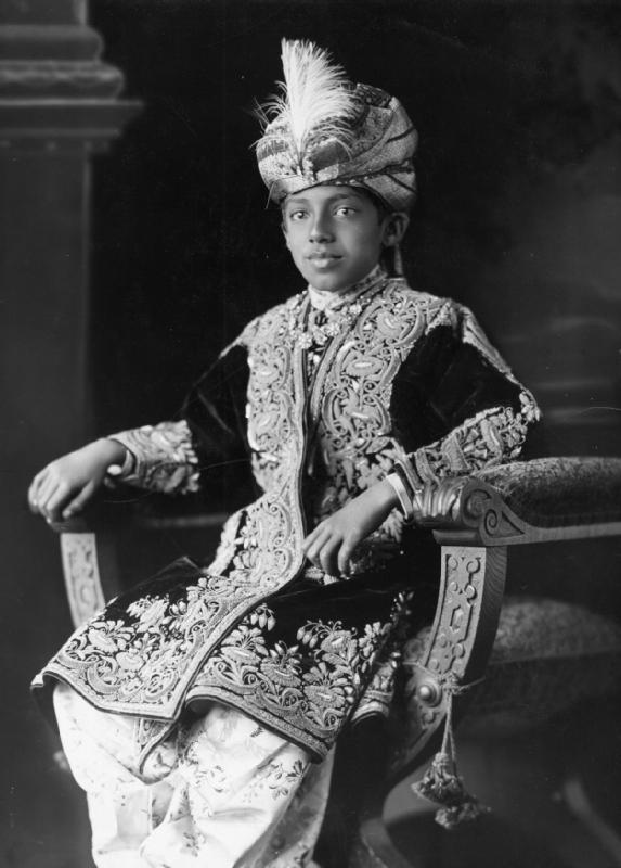 The Nawab of Bahawalpur, aged 11, in 1915. In 1917, the Nawab donated £5,000 to the Punjab Aeroplane Fund, raised in the province for the purpose of providing aeroplanes for the British Army. Sadeq Mohammad Khan was born at Derawar in 1904 and became Nawab of Bahawalpur on the death of his father three years later. A Council of Regency, with Sir Rahim Bakhsh as its President, ruled on his behalf until 1924. The Nawab served as an officer with the Indian Army, fighting in the Third Anglo-Afghan War (1919) and commanding forces in the Middle East during the Second World War. In August 1947, the Nawab received the title of Amir of Bahawalpur, acceding his State to the Dominion of Pakistan a month later. In 1955, the Amir was promoted to General in the Pakistani Army and merged his state into West Pakistan. He died in 1966, aged 61. Faces of the First World War Find out more about this First World War Centenary project at This image is from IWM Collections. The Museum released this image on a custom licence - IWM Non-Commercial license. However where the photograph has no known author, these are public domain under the 70 rule and where they were owned by the Ministry of Information, any other government department or agency, taken by a member of the military during their service or by a photographer commissioned by the services, these are now out of copyright restriction.